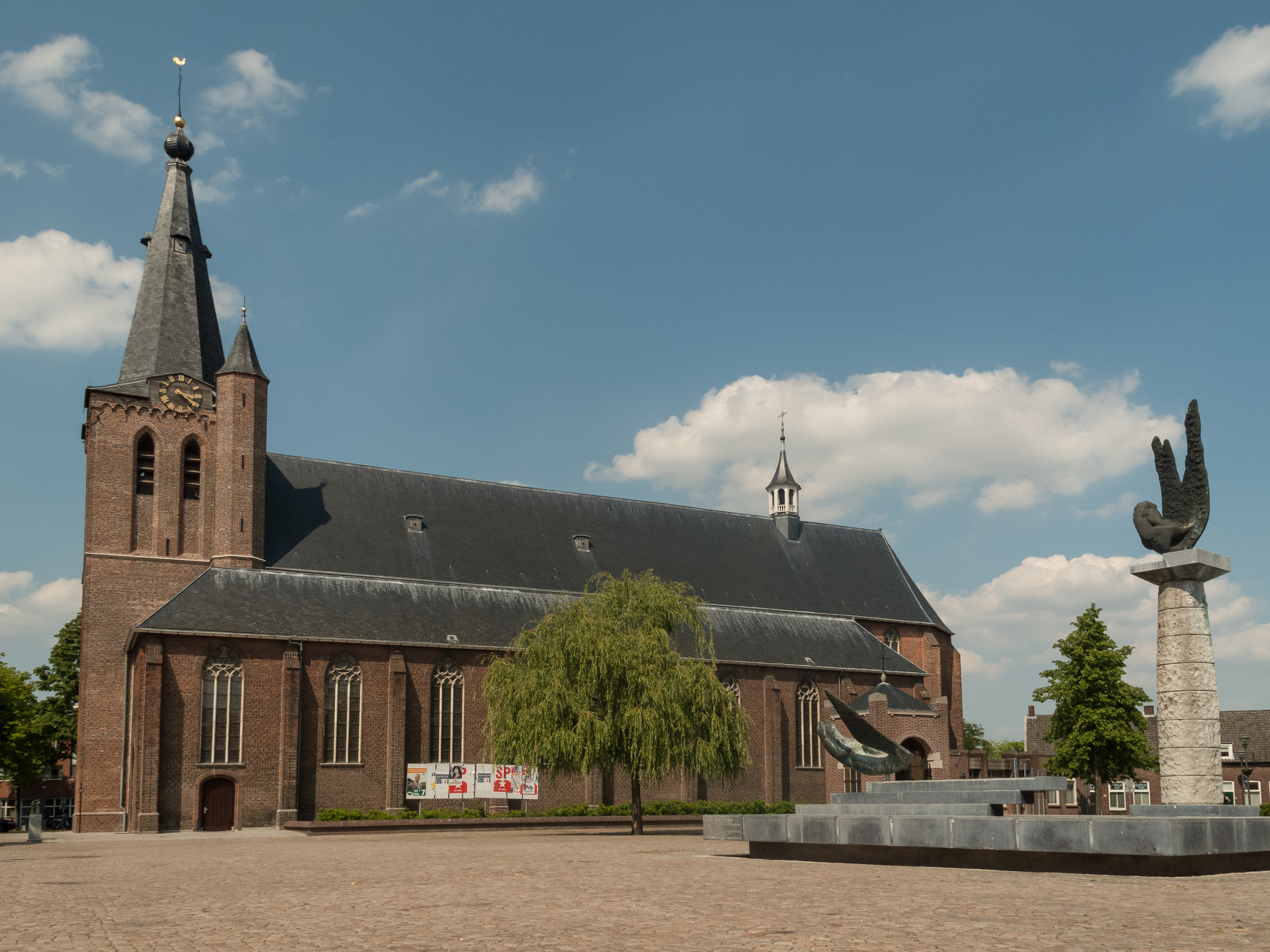 Schijndel, church: de Sint Servatiuskerk